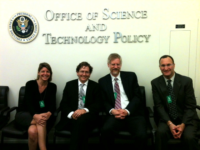 Access2Research Founders Heather Joseph, John Wilbanks, Michael W. Carroll and Mike Rossner after meeting at the White House Office of Science and Technology Policy. Taken as the decision to launch the online petition was made.